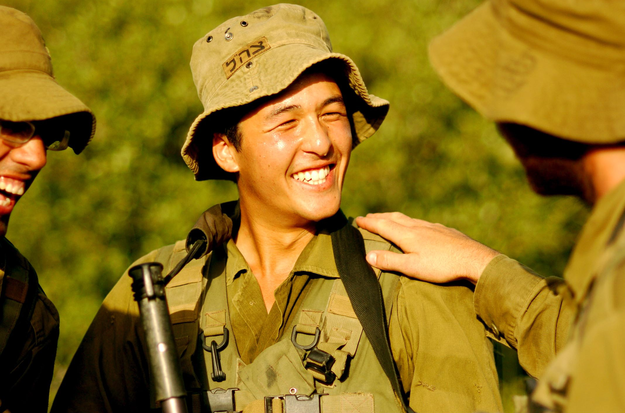 A soldier from the 50th Battalion of the Nahal Infantry Brigade. Photo of the day on September 4, 2011.